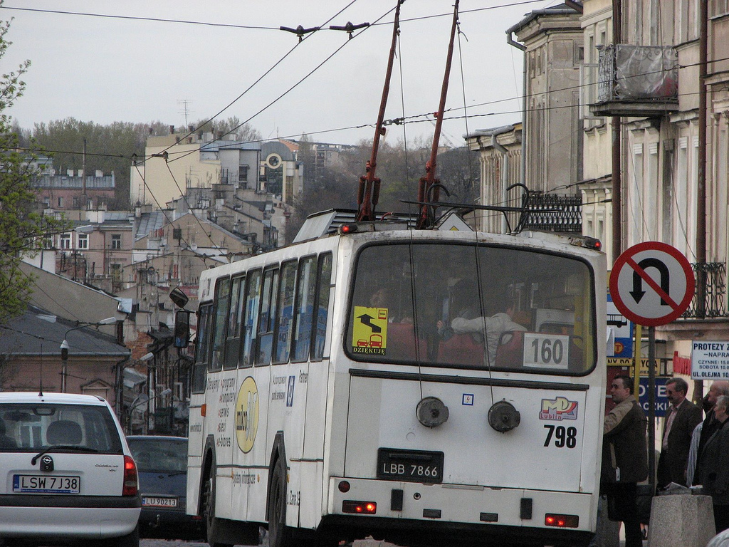 White trolleybus KPNA/Jelcz PR110E (#798, after #3798) of MPK Lublin, Poland. Built 1987.